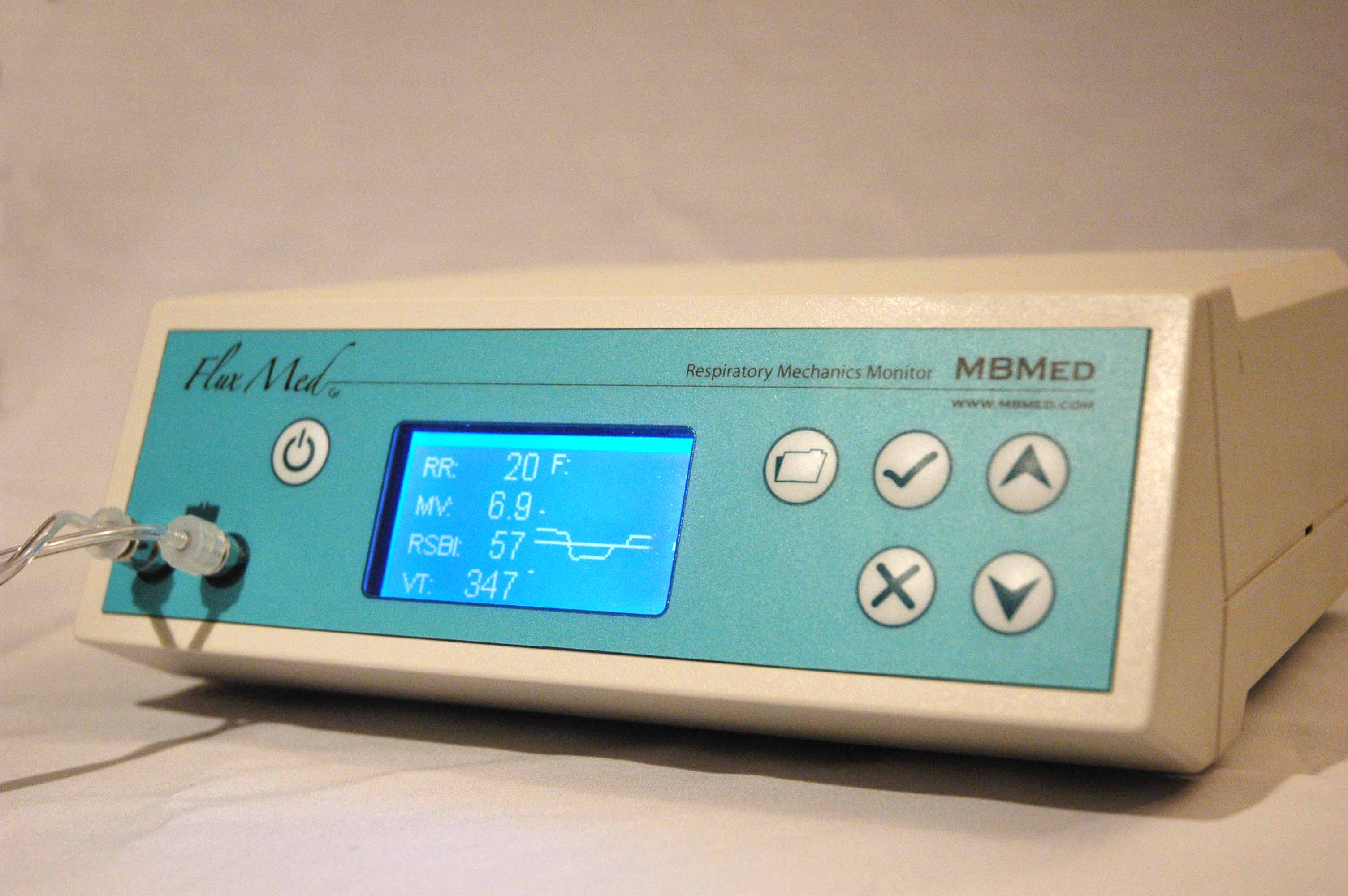 Image of the FluxMed respiratory mechanics monitor